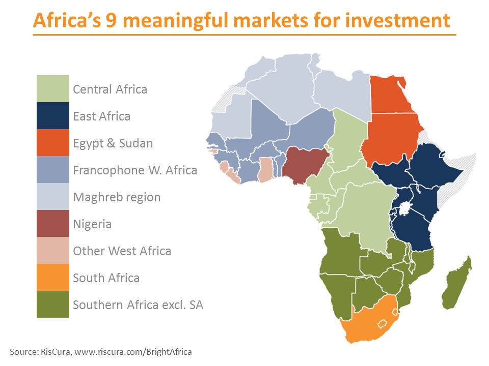 Map of Africa's division by economic factors